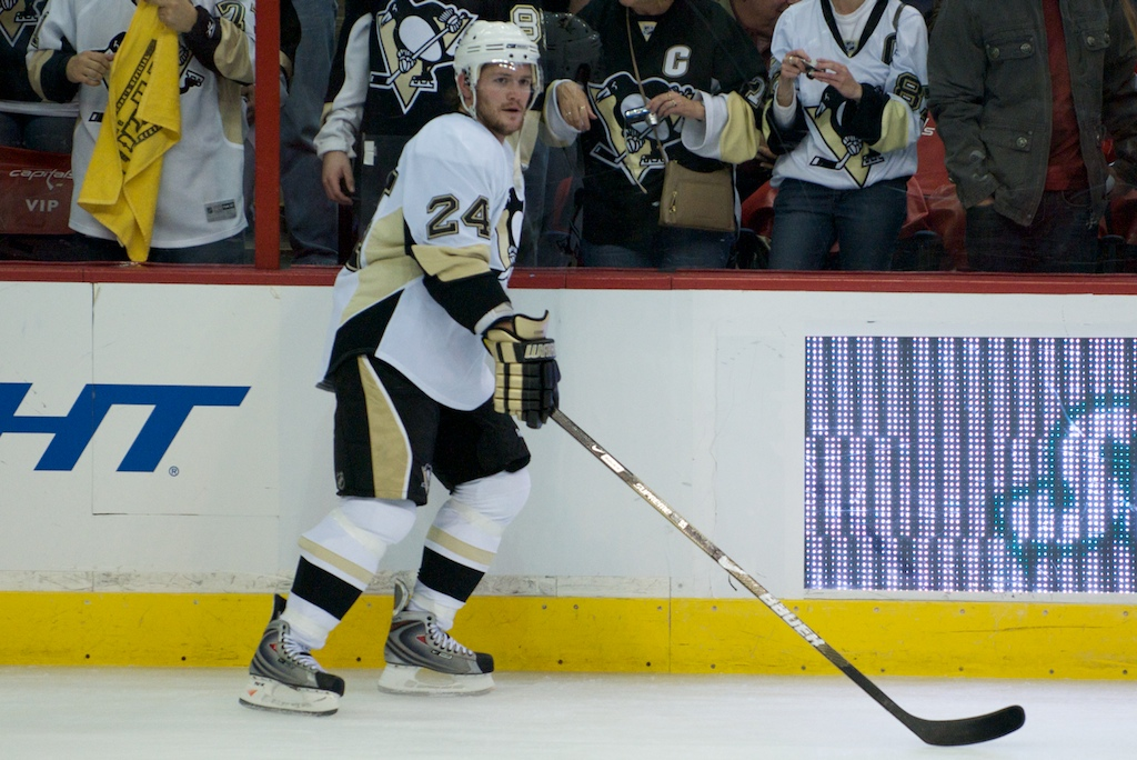 Matt Cooke of the Pittsburgh Penguins.